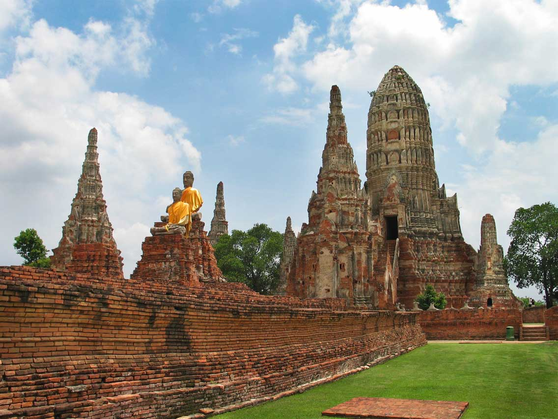 Wat Chai Wattanaram, Ayutthaya, Thailand.